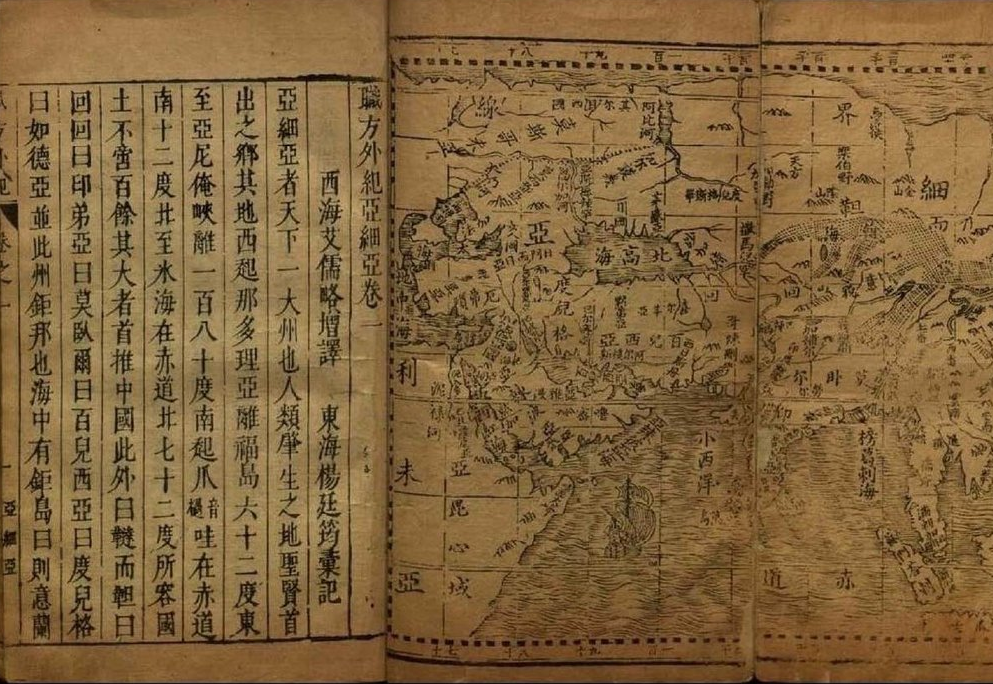 Pages from te Zhifang waiji showing the Asian continent